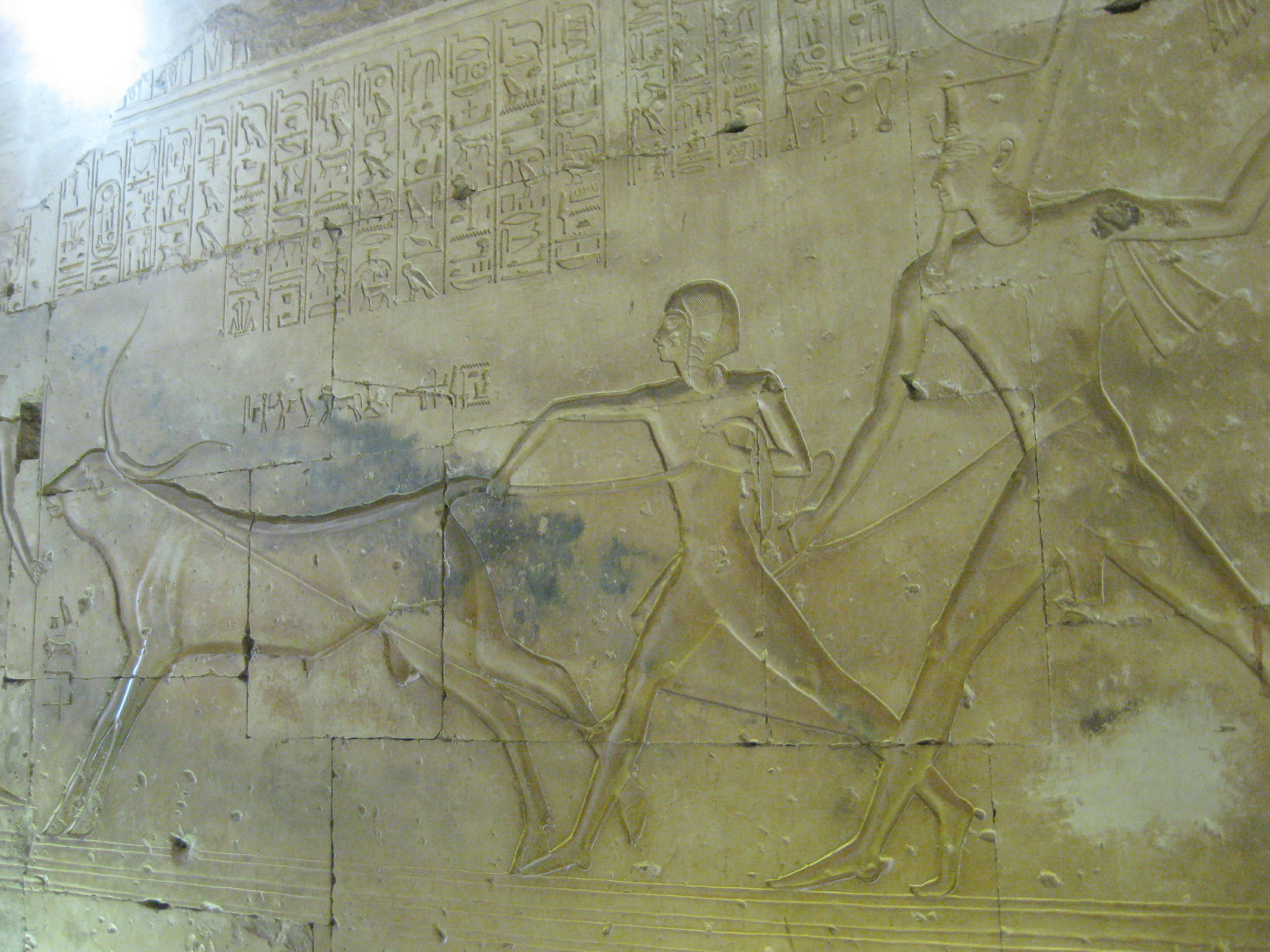 A relief depicting prince Amun-her-khepeshef (left) and Ramesses II (right) from the Temple of Abydos. Amun-her-khepeshef was the 'first born son' of pharaoh Ramesses II.